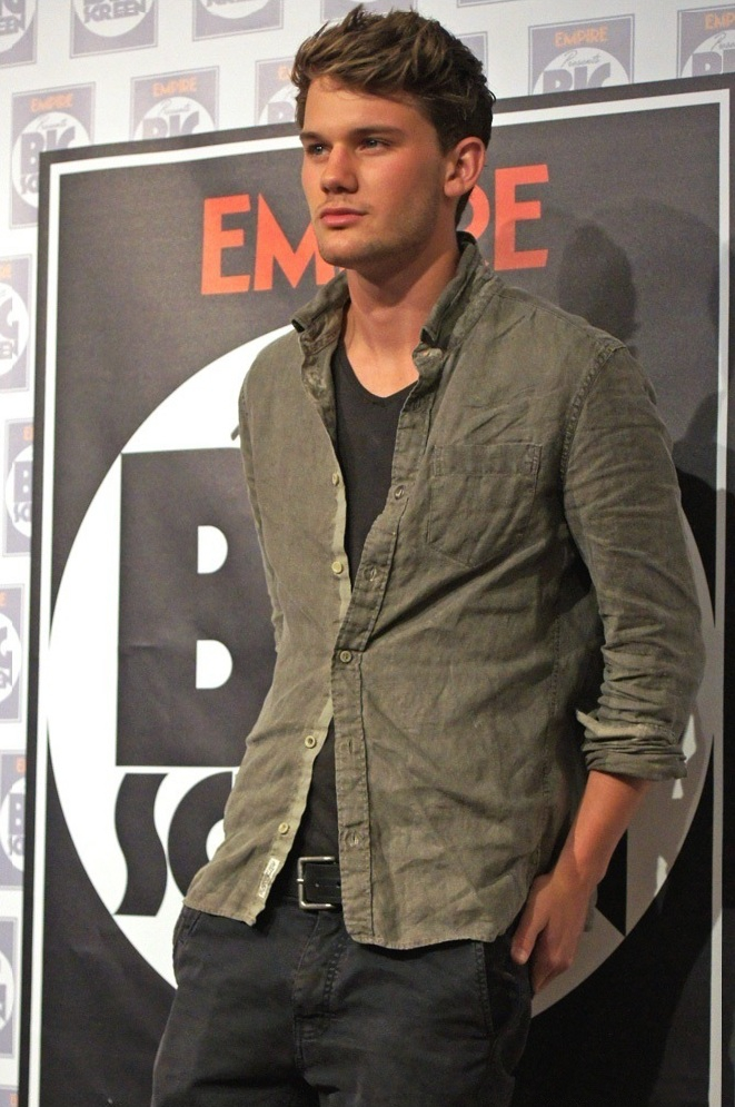 Empire BIG SCREEN: Jeremy Irvine talks War Horse and working with Steven Spielberg in the press room